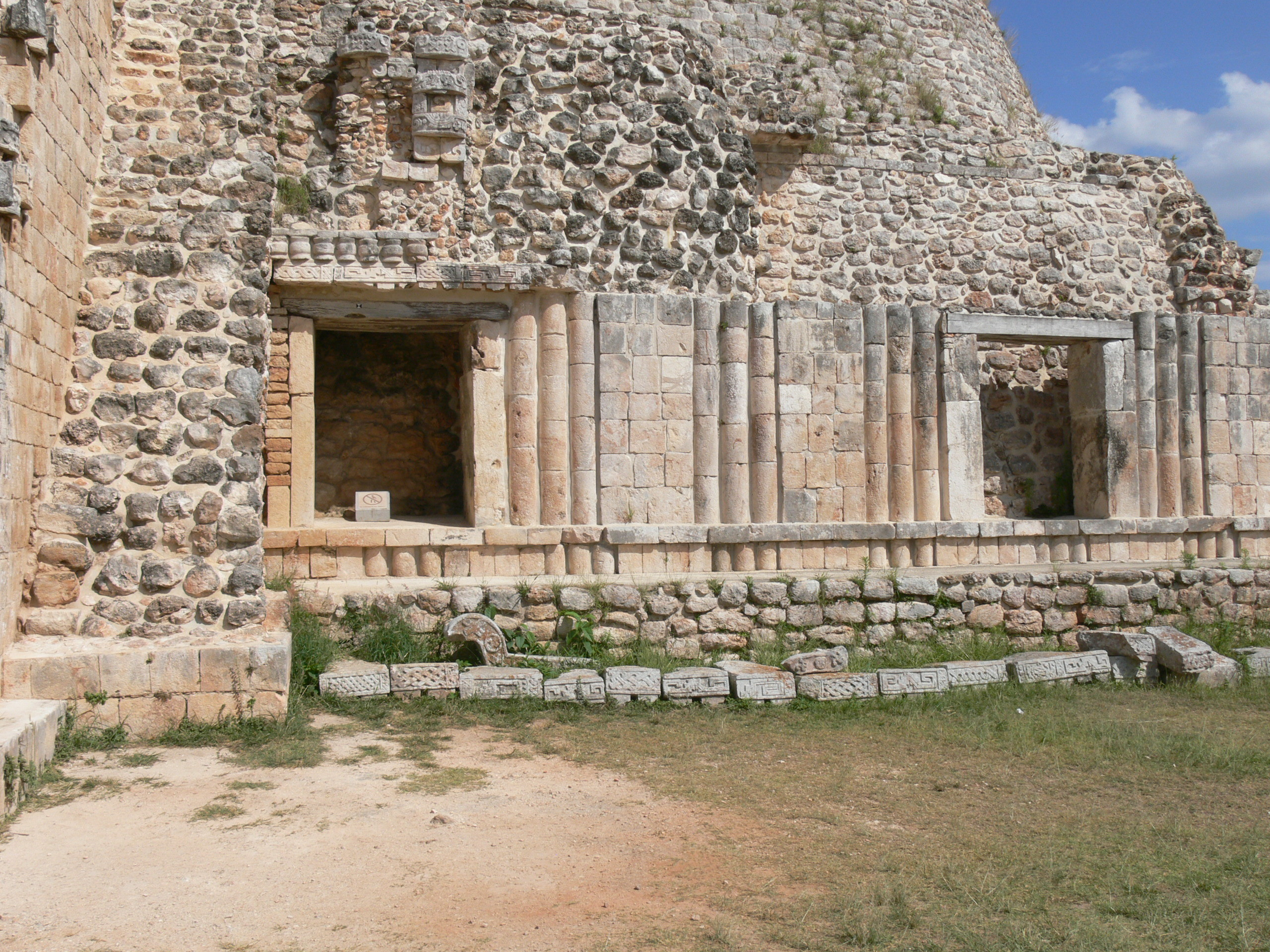 Uxmal ( Yucatan ). Pyramid of the magician: Doors at the southern flank of the pyramid.